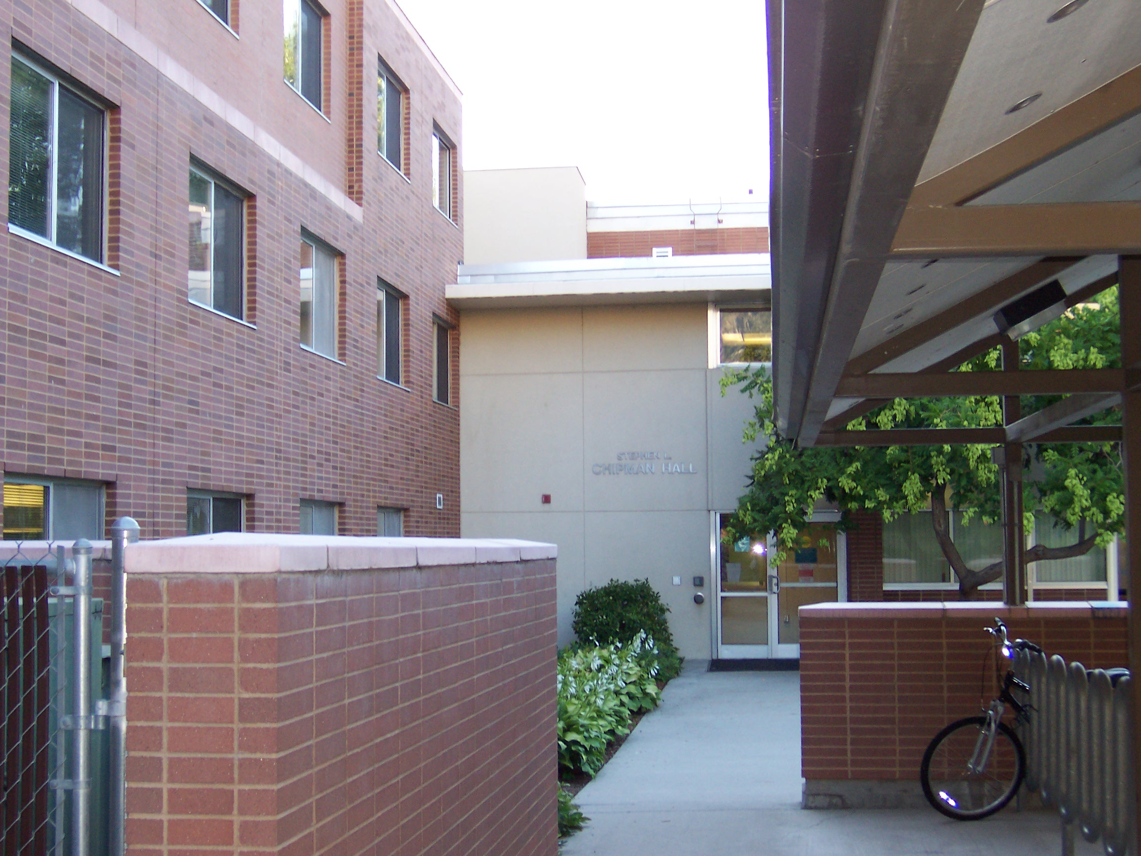 Photograph of Helaman Halls (C) Chipman (Steven L.) Hall at Brigham Young University.